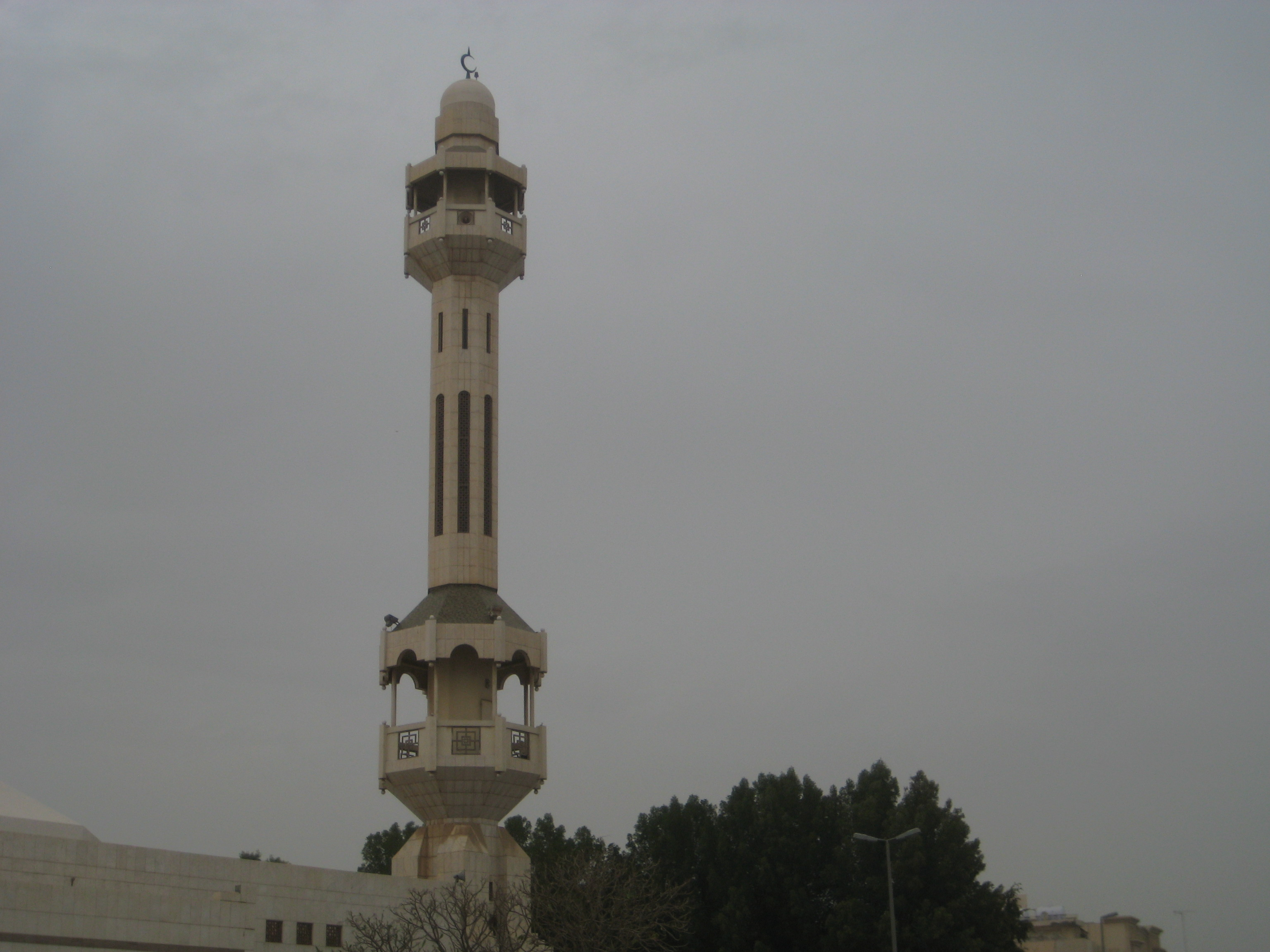 A Minar of a Masjid.